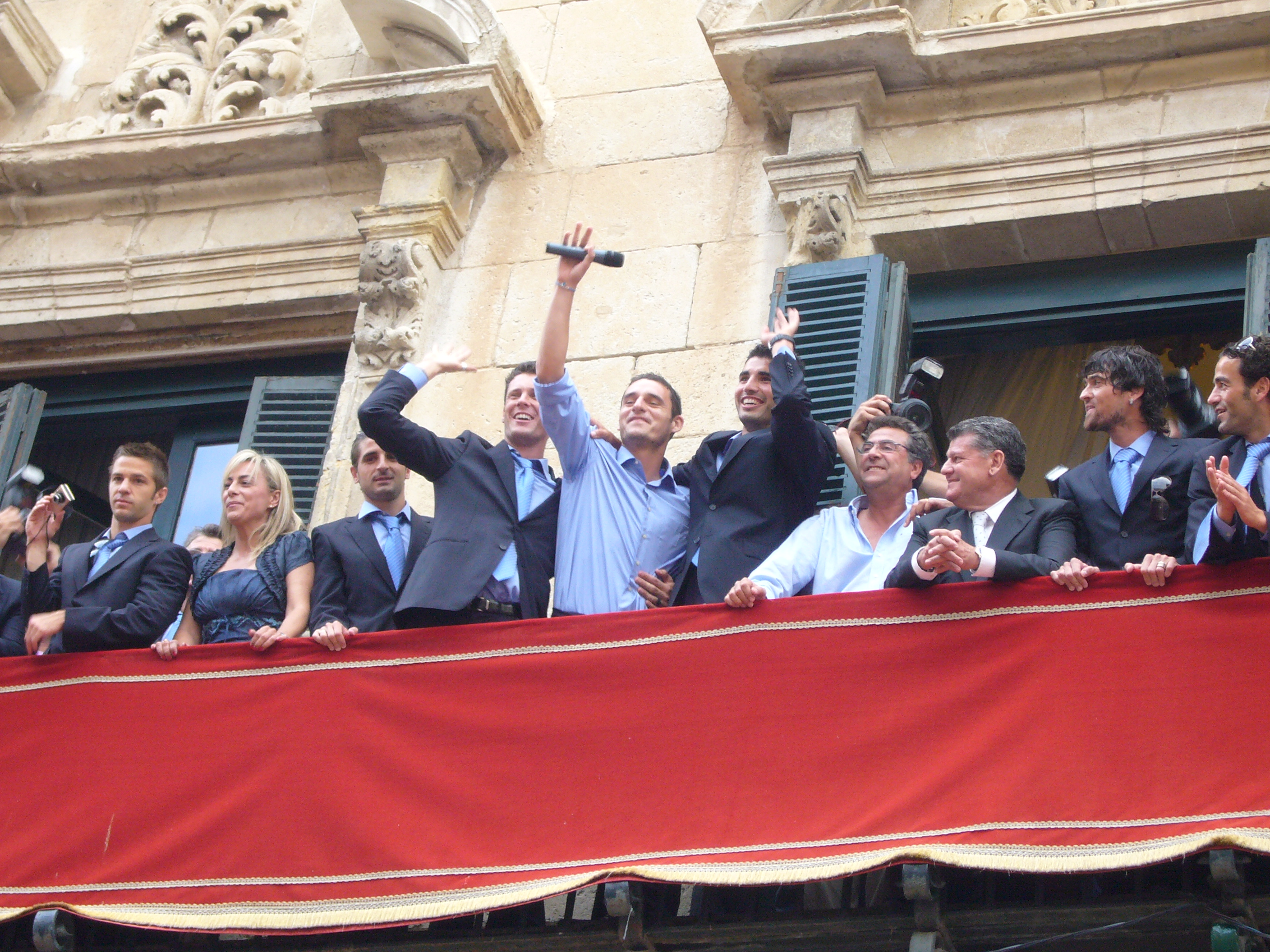 Andrija Delibasic (with microphone in hand) held on the balcony of the City of Hercules Alicante promotion to First Division in the 2009/10 season.